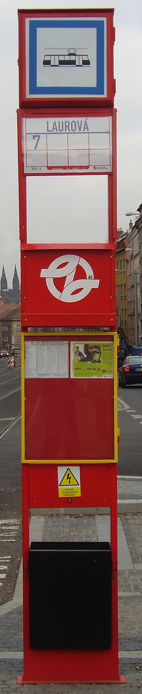 Tram track Radlice - Laurová train stop